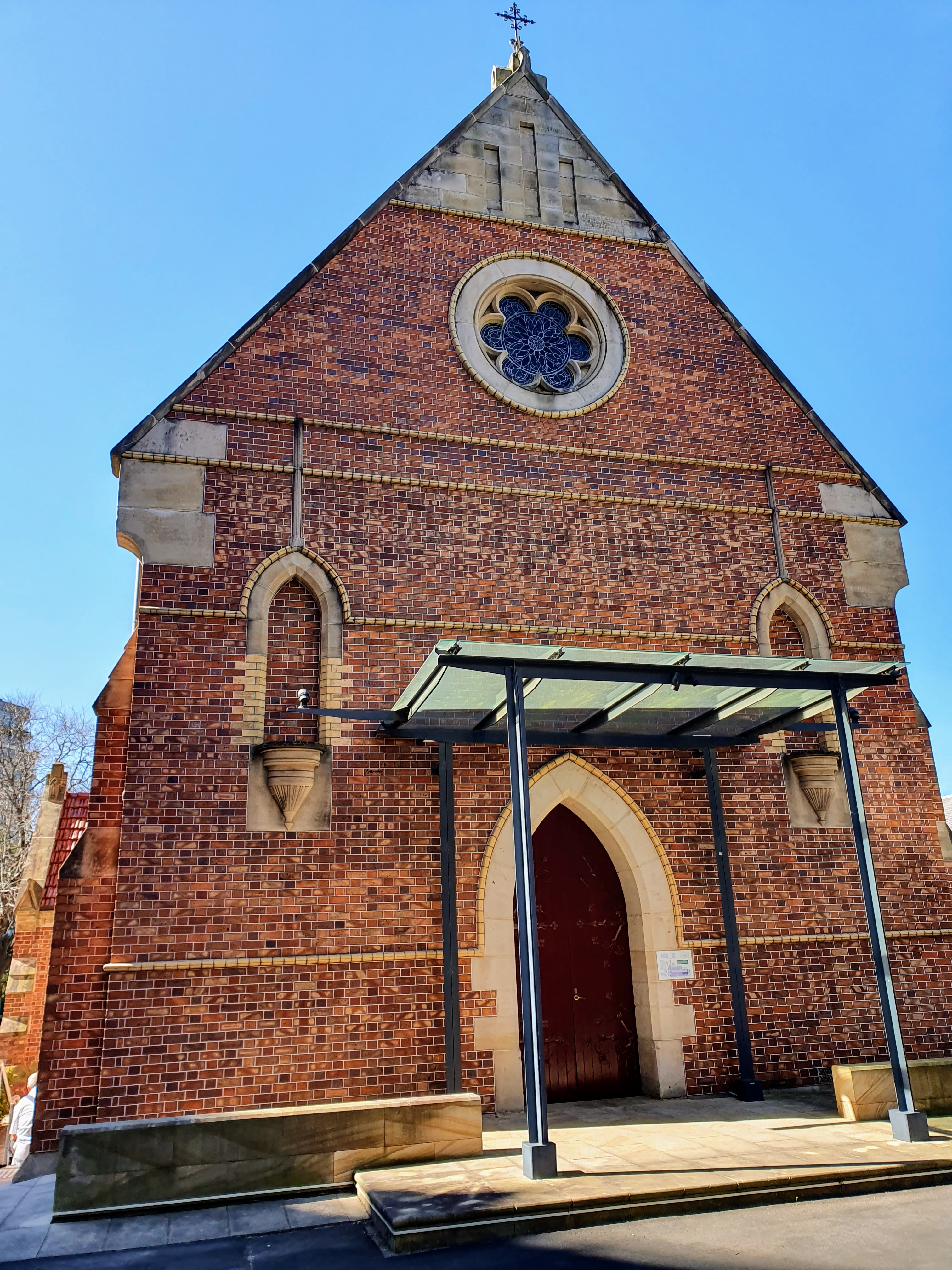 St Magdalen's Chapel